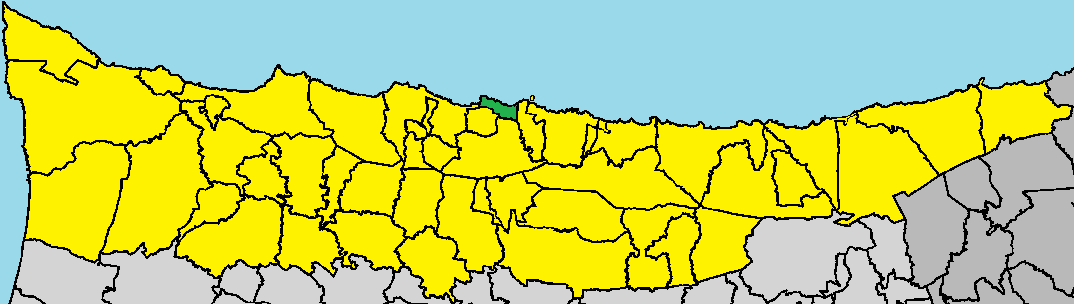 Agios Georgios Keryneias in Kyrenia District (de jure).